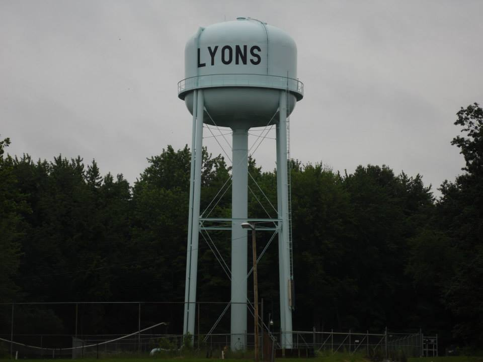 Lyons Indiana Water Tower